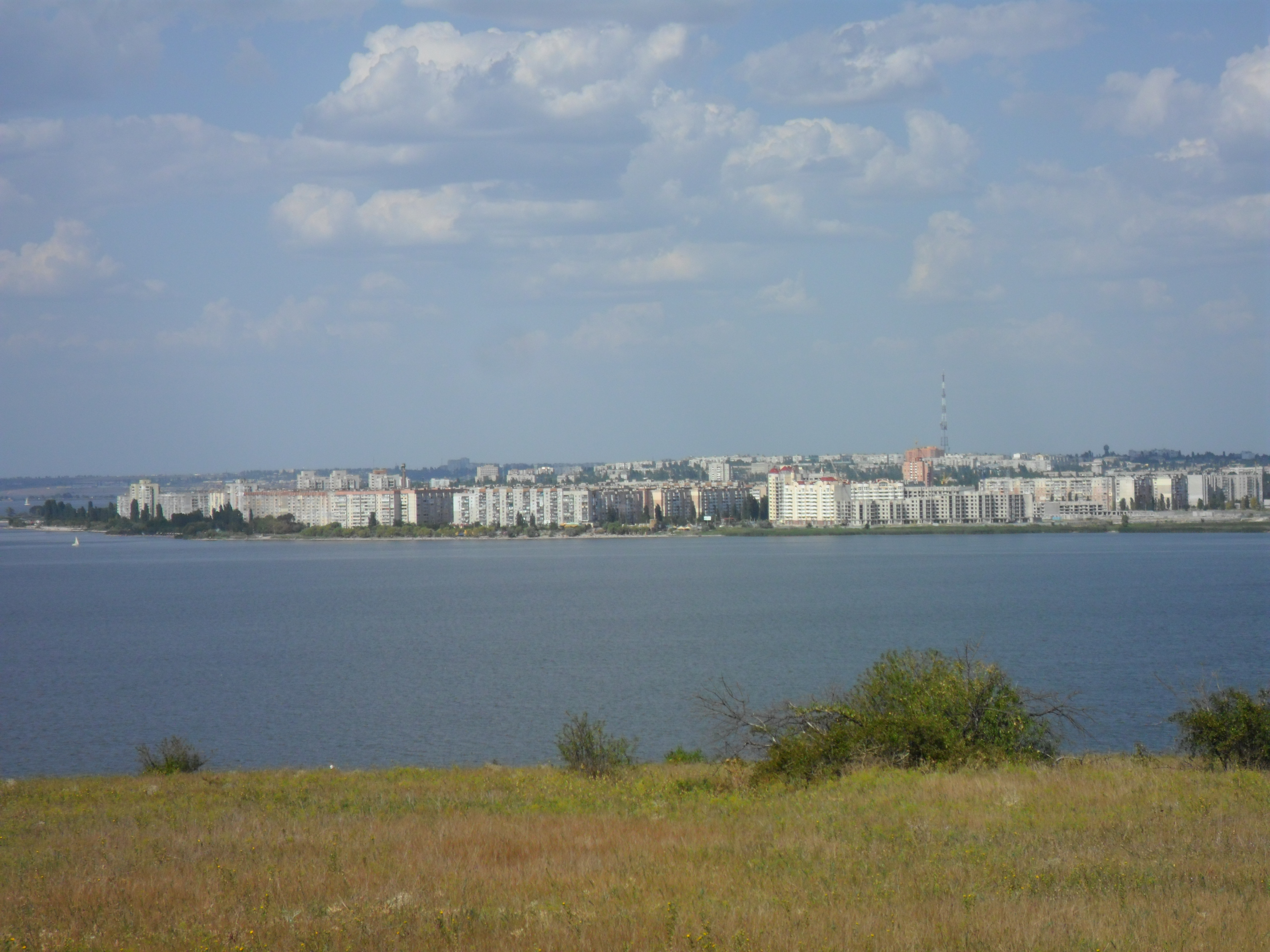 Вид на Намыв со стороны дачных участков "Искра" возле Малой Коренихи